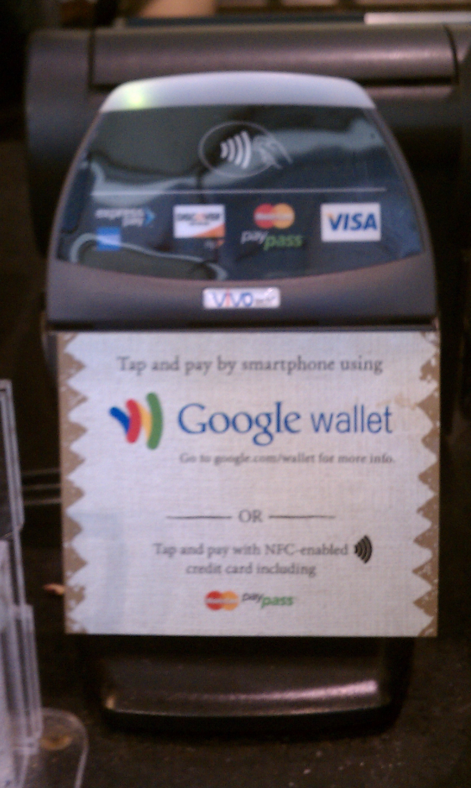 An NFC (Near Field Communication) point at a Peet's Coffee for use with Google Wallet.